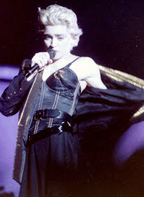 Wembley Stadium Londen Engeland juli '87